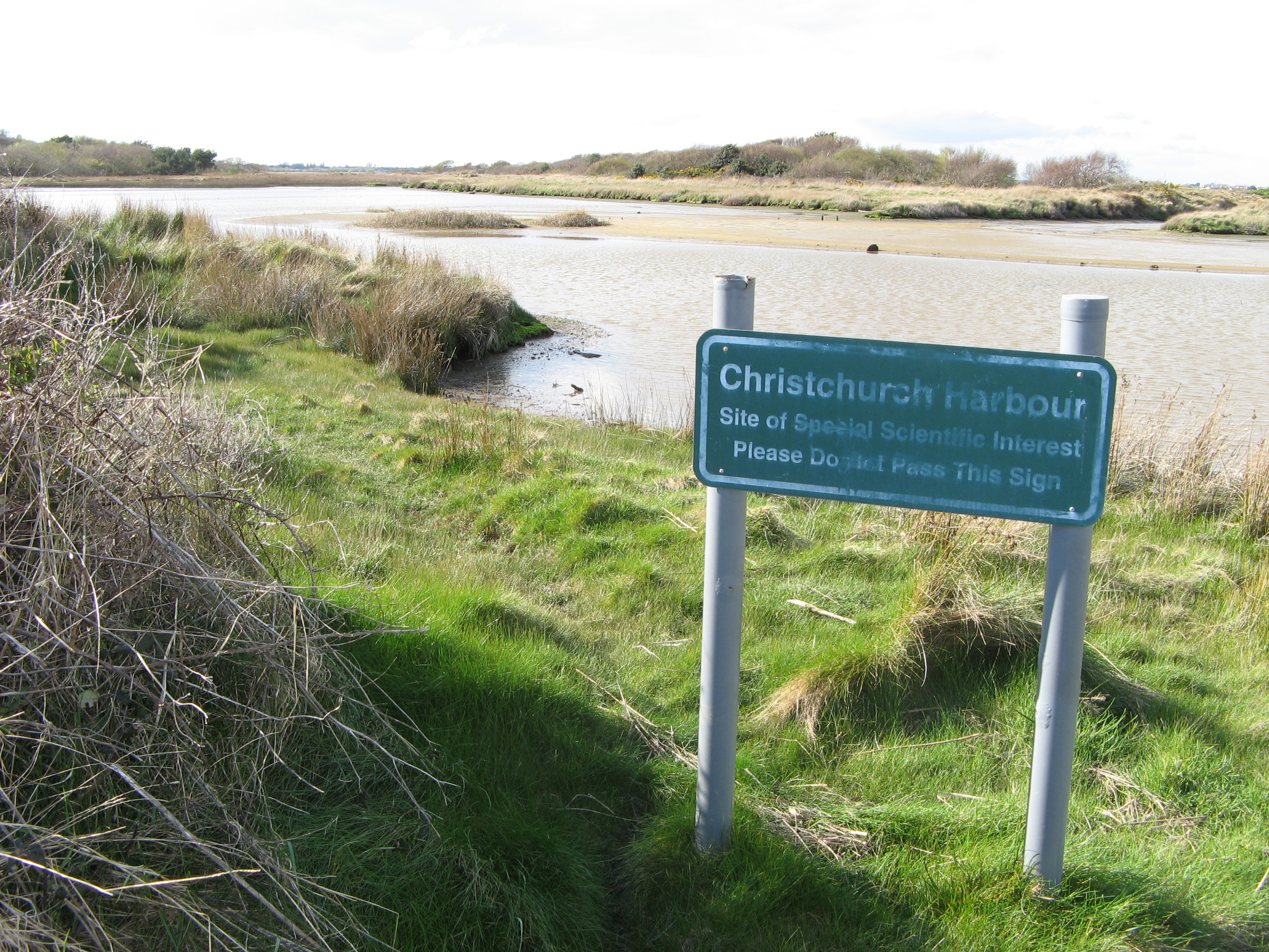 Christchurch Harbour 2008